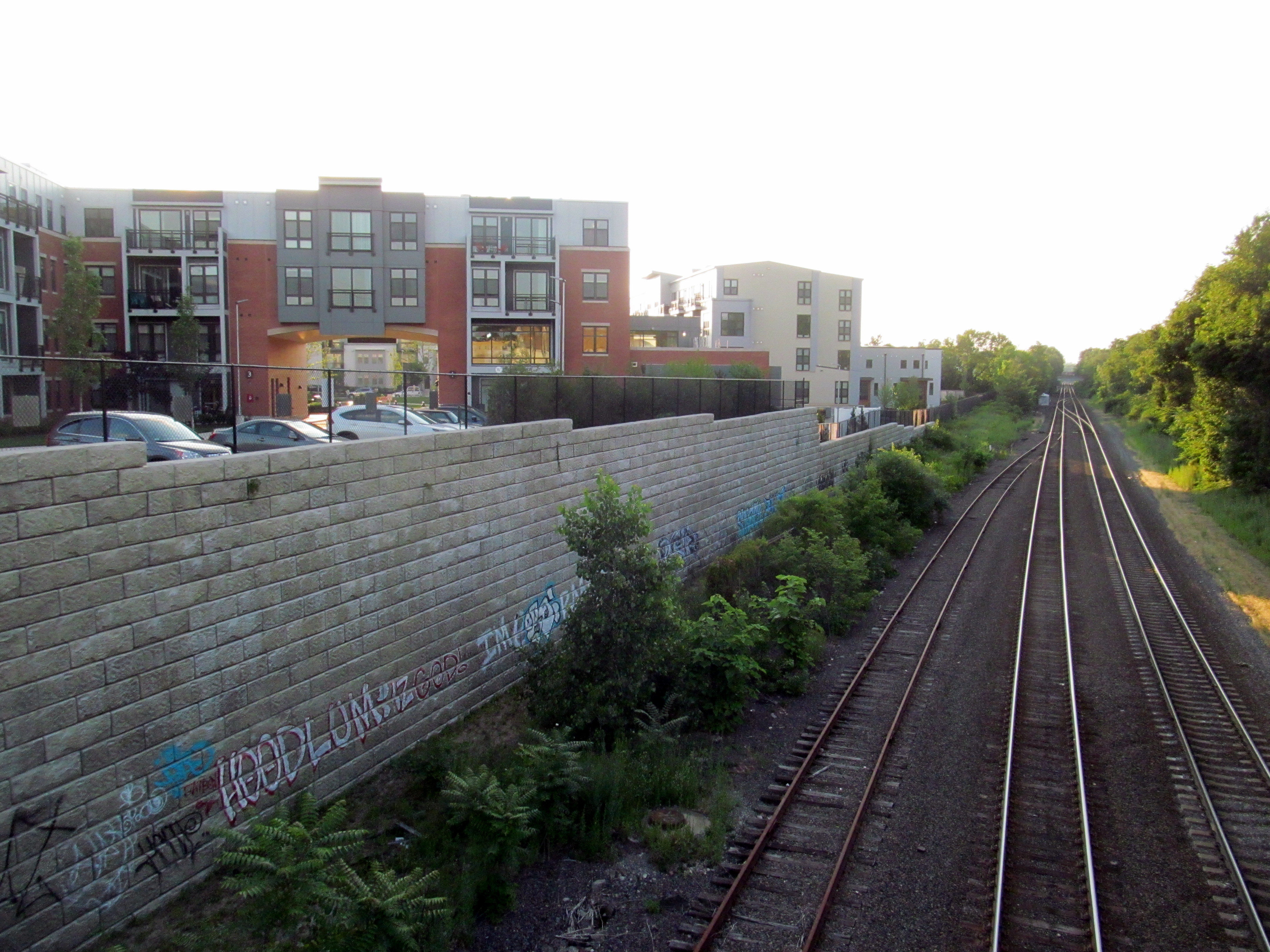 Site of the future Lowell Street station in July 2015